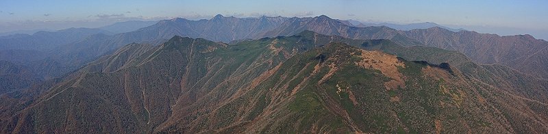 Hidaka Mountains' ridge as seen from Mount Kamui.